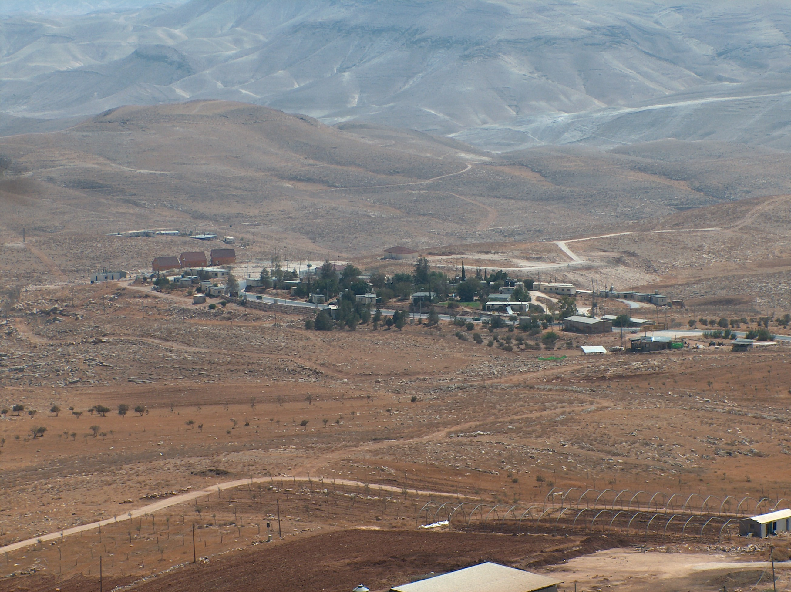 View on the settlement of Kfar Eldad, the settlement Maale Rehav'am in on the left, in the background